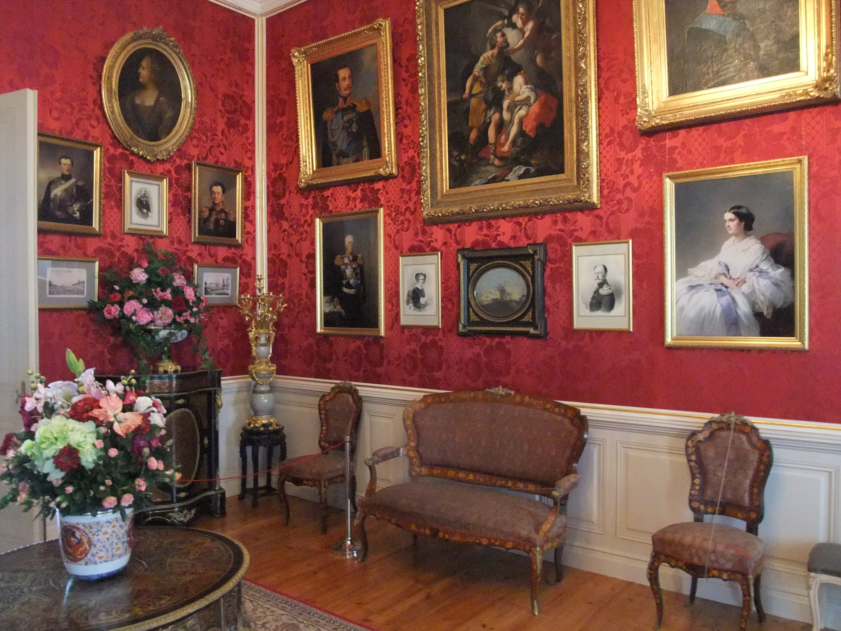 Interior of Rundale Palace, Latvia